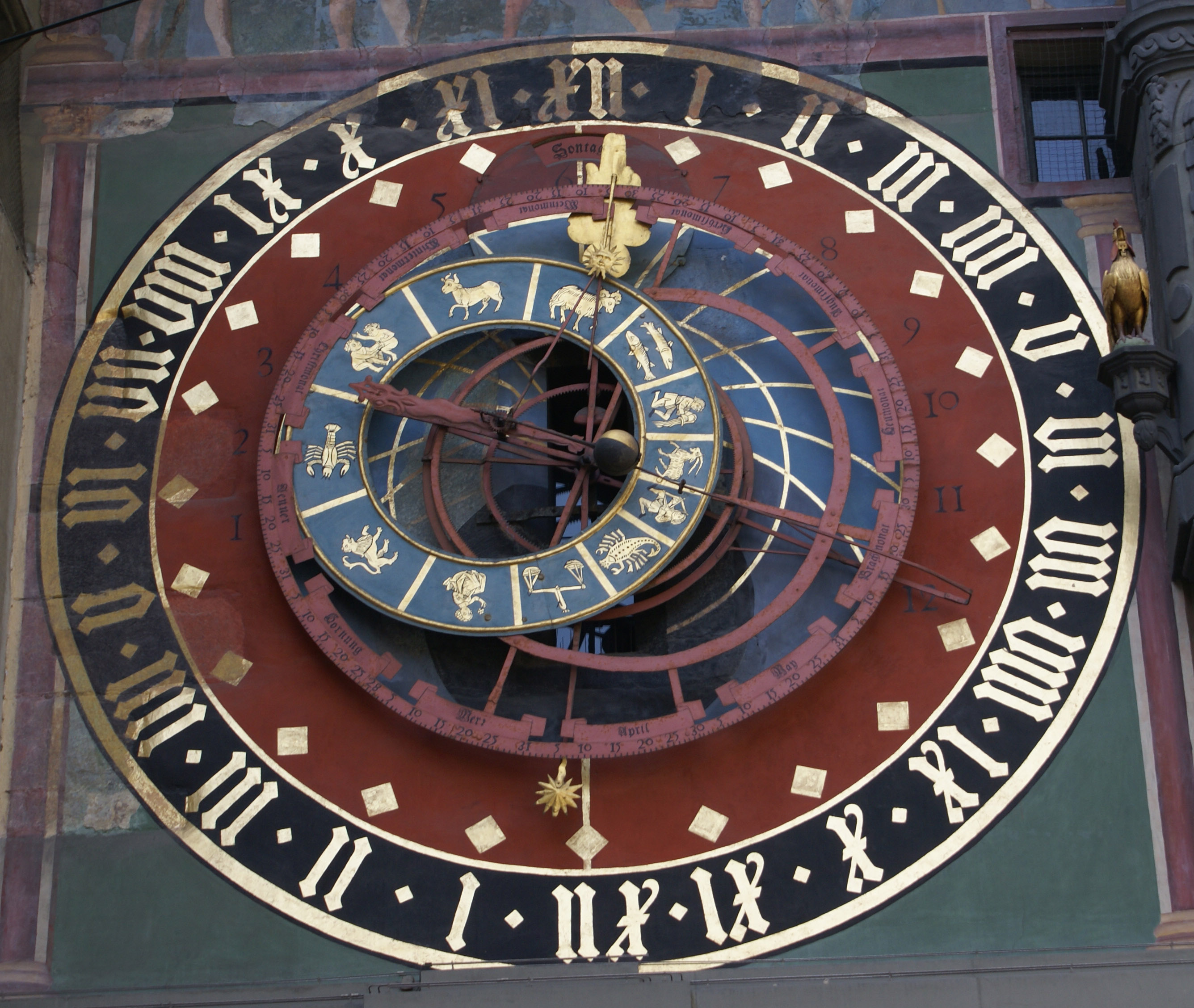 Zytglogge tower in Bern, Switzerland. Astronomical clock.